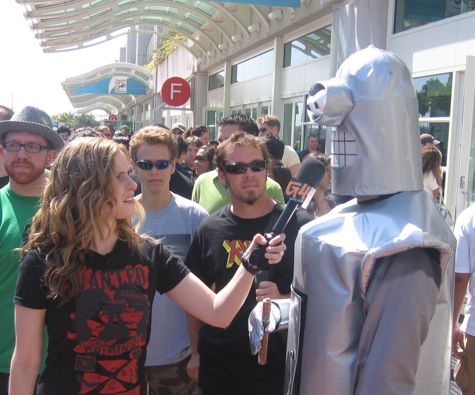 Blair Butler interviewing Bender Bending Rodriguez at Comic-Con International in San Diego, California. July, en:2007.